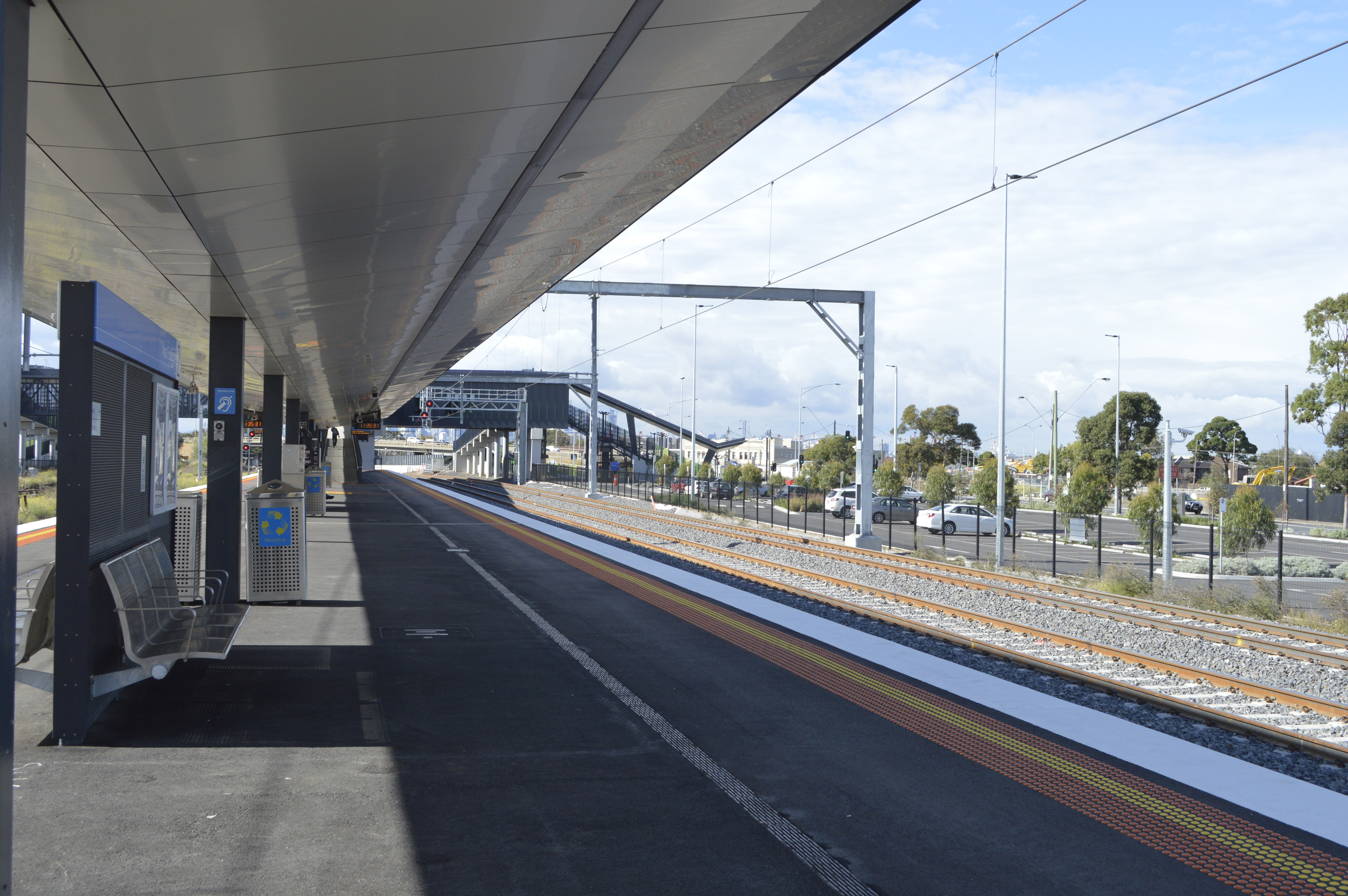 Looking east.